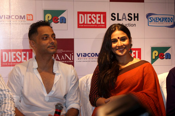 Sujoy Ghosh, Vidya Balan From The DVD launch of 'Kahaani'